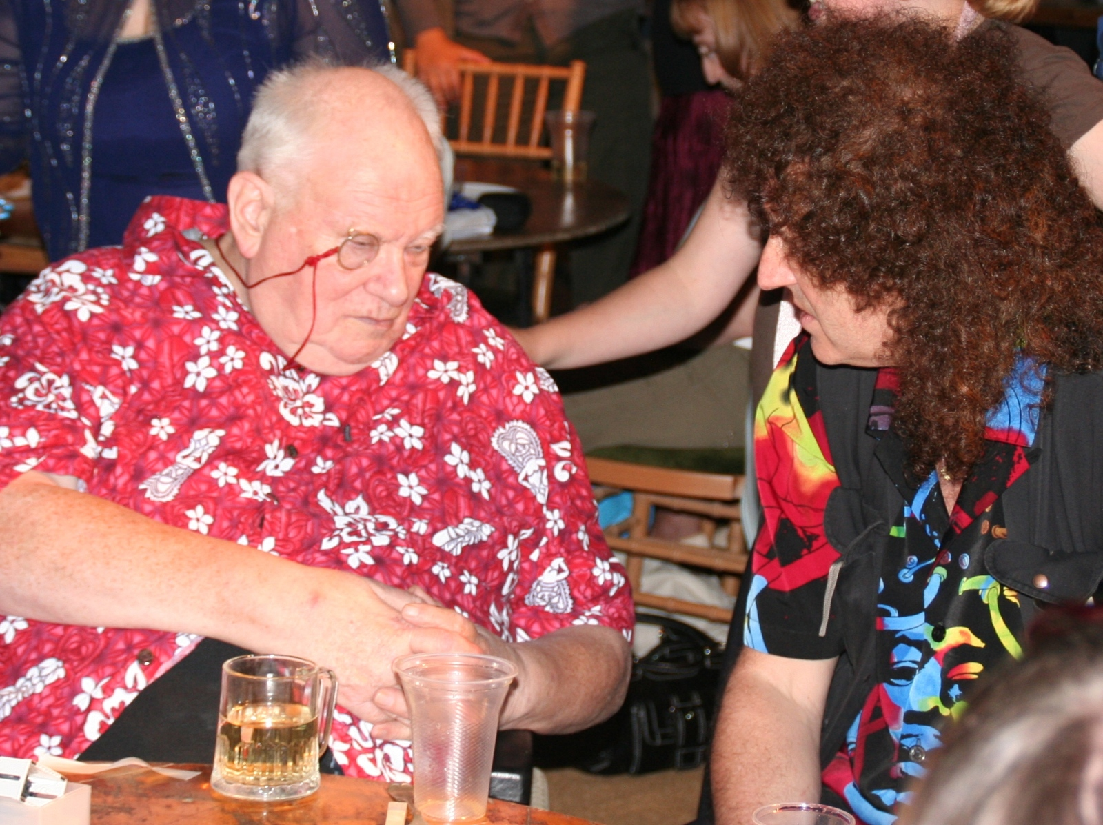 Sir Patrick Moore and Brian May at the Sky at Night 50th Anniversary Party at Sir Patrick Moore's house in Selsey.